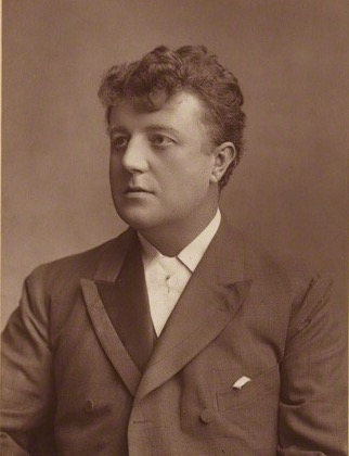 The English music hall comedian Harry Nicholls in 1897